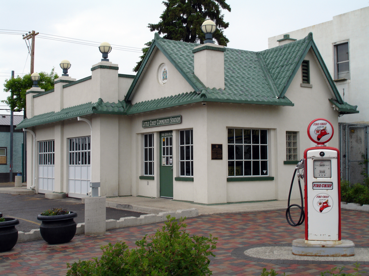 Little Chief Community Police Station, on 20th Street & Avenue D in Saskatoon, Saskatchewan, Canada. Formerly a Texaco gas station, this Spanish Colonial building was declared a municipal heritage property on February 10, 2003.